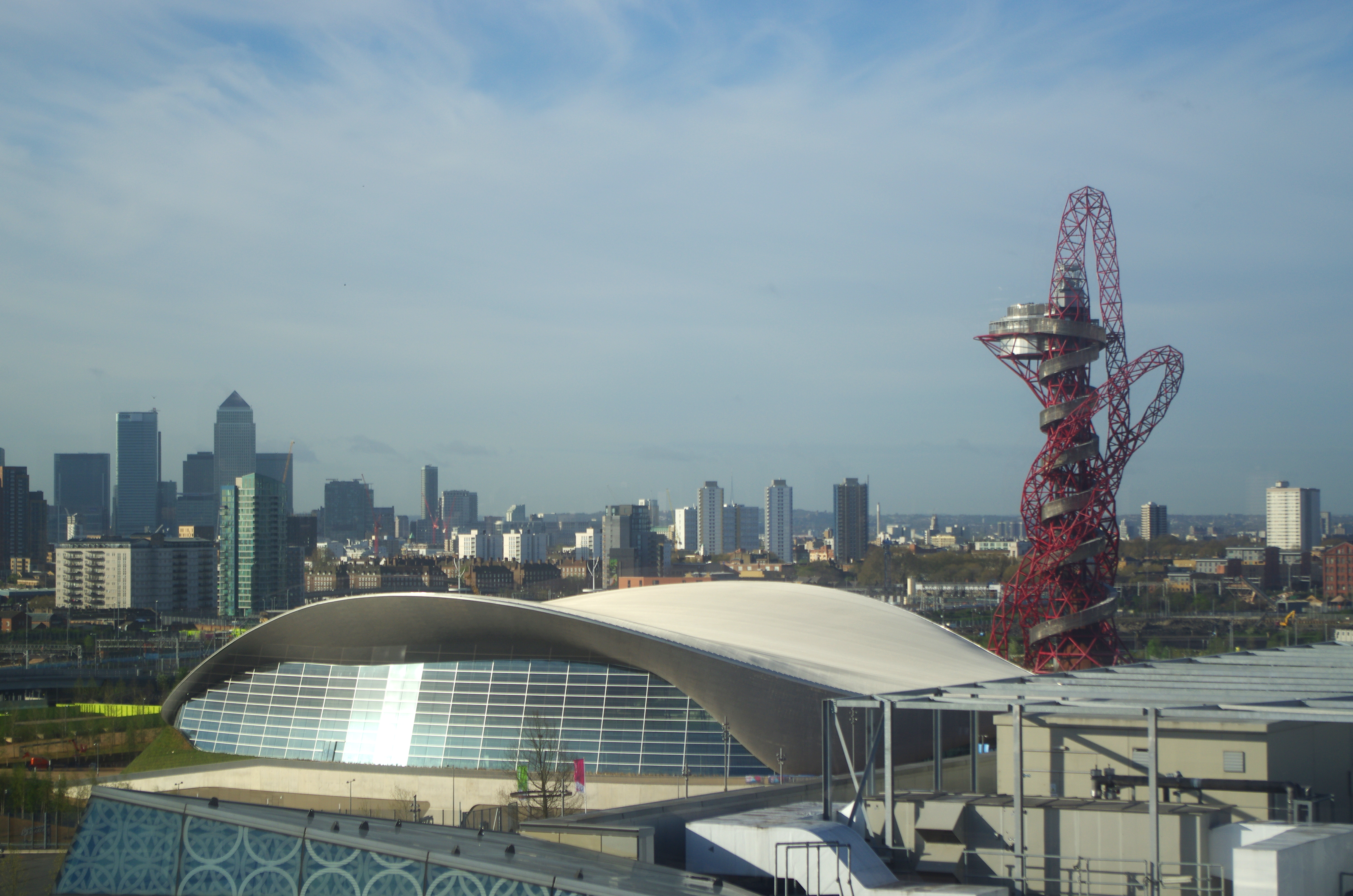 View on the Queen Elizabeth II Olympic Park in Stratford, London, that was the scene for the Olympic Games in 2012. The London Aquatics Centre, designed by Zaha Hadid, is central on the picture. The tall red structure on the right is the ArcelorMittal Orbit, a steel sculpture by by Anish Kapoor.